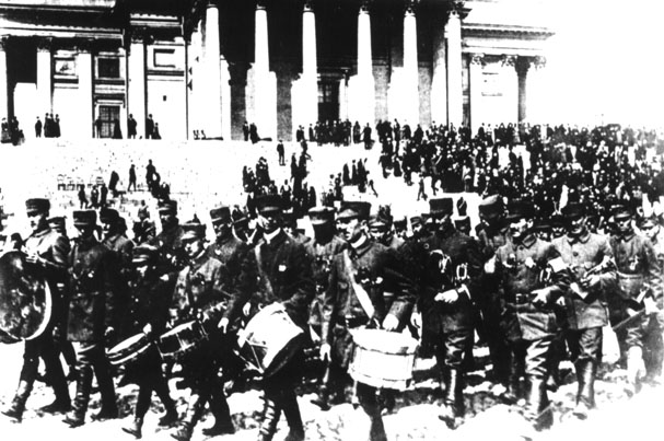 Victory parade by German and Finnish White Guard troops, Helsinki, May 1918